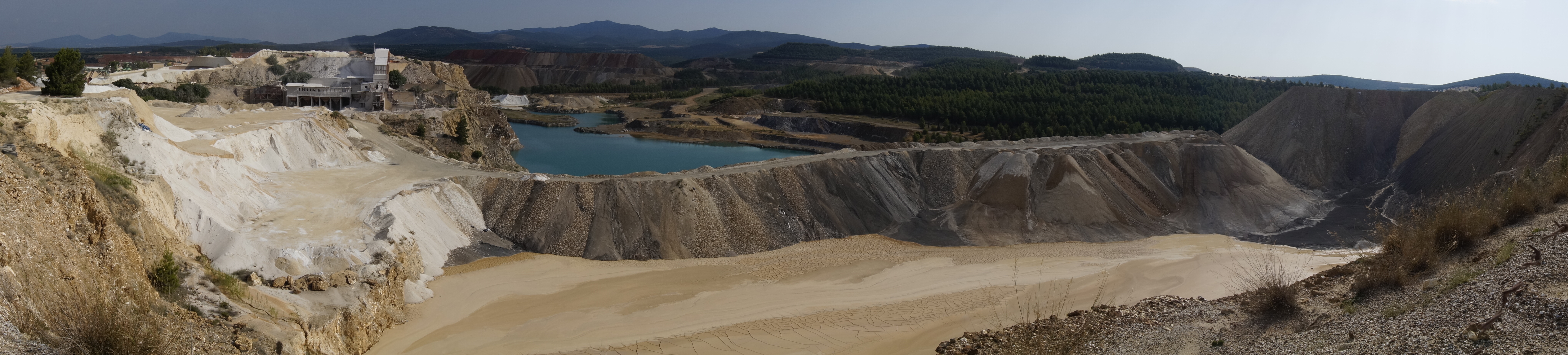 Magnesite quarries area at Yerakini, Chalkidiki, Macedonia, Greece, Jun 2014